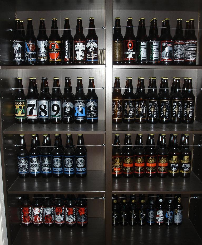 Assorted beer bottles produced by the Stone Brewing Company.